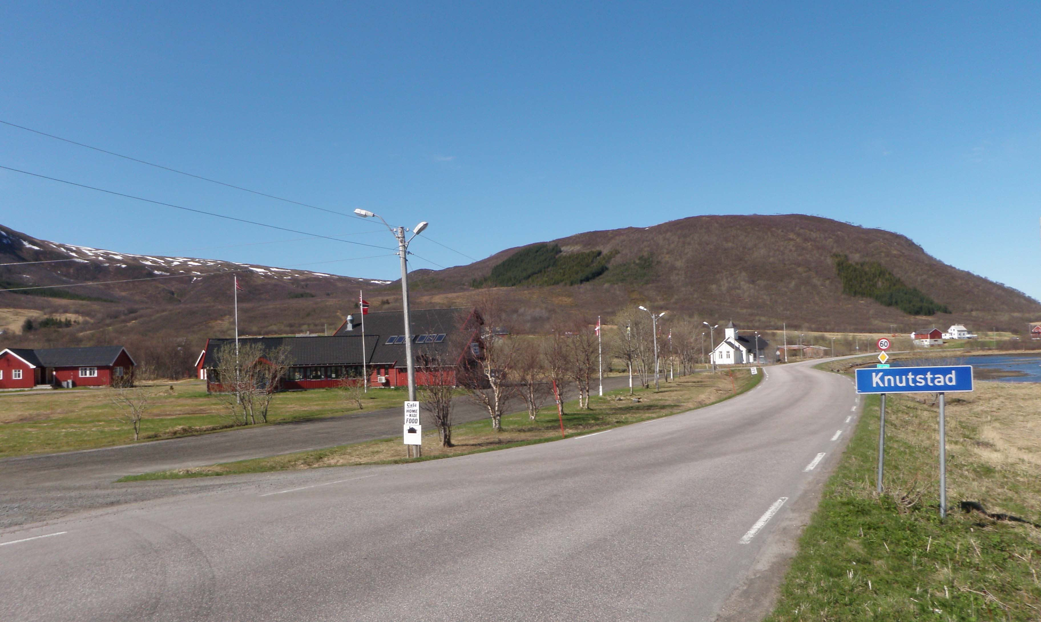 The village of Knutstad in Vestvågøy, Nordland, Norway. Knutstad Chapel can be seen in the distance.